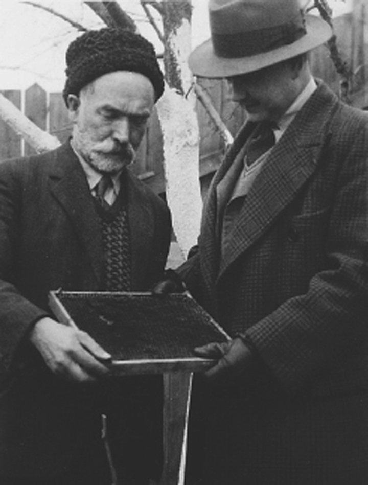 Slovak writers Jozef Gregor Tajovský and Gejza Vámoš, year 1934 – 1935